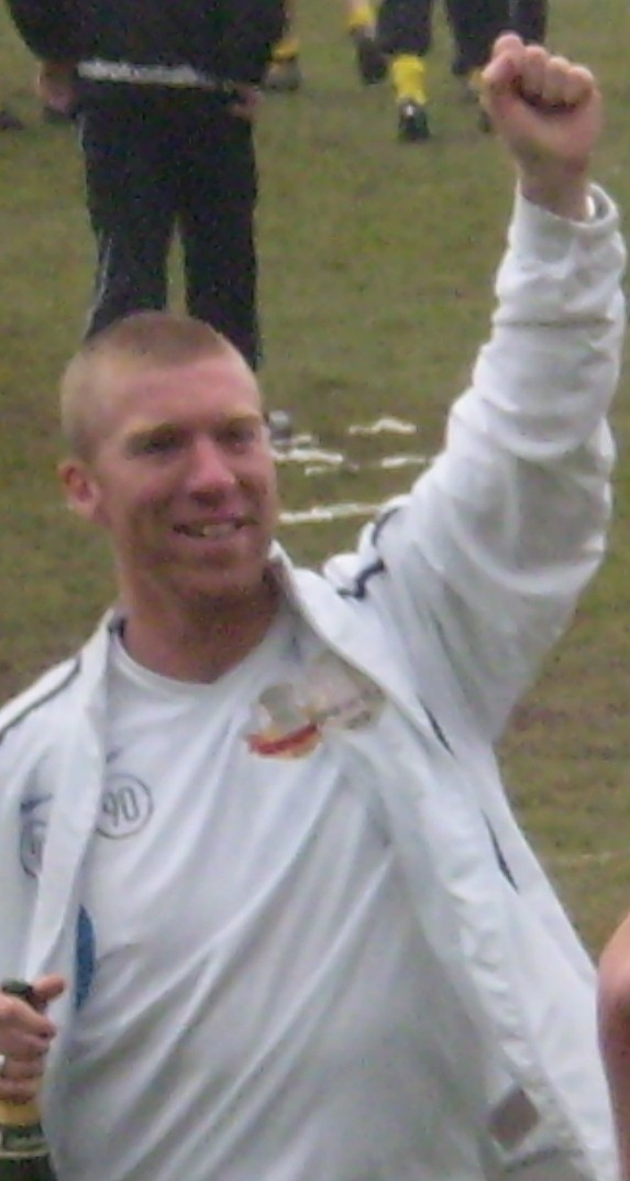 Simon Wormull, then of Lewes F.C., celebrates the 2–0 win against Dorchester Town F.C. which clinched the 2007–08 Conference South title